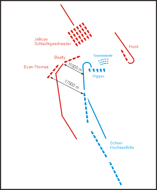 Battle of Jutland 31 May 1916 - The battlecruiser chase.